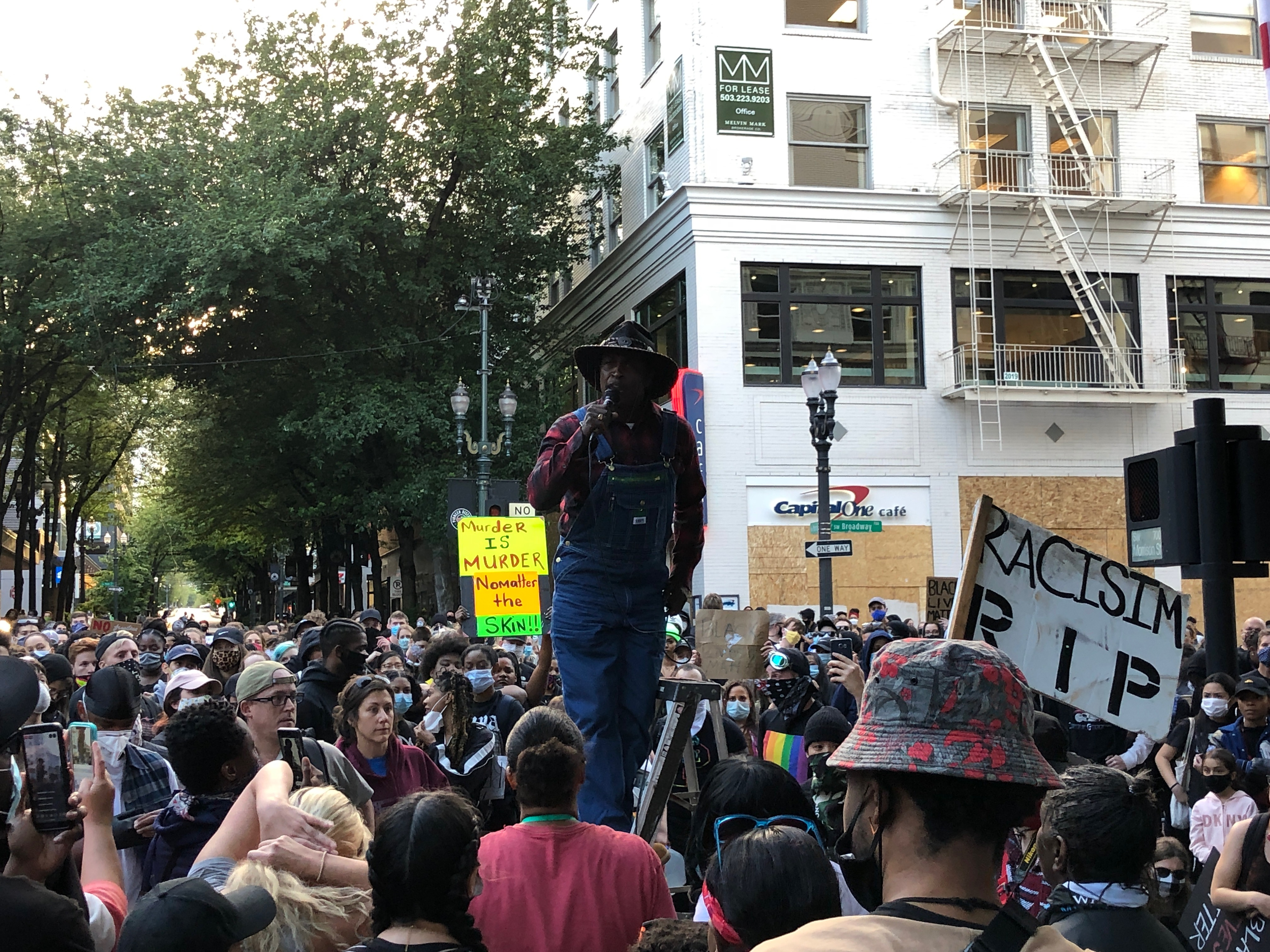 Anti-Police Brutality and Racism Protest in Portland